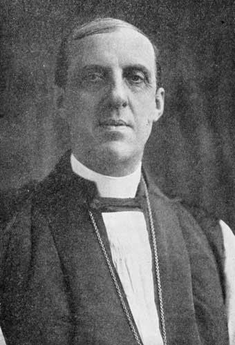 The Rt. Rev. John Dominique La Mothe, D.D. Second American Bishop of Honolulu, 1921-1928. Born in Ramsey, Isle of Man, he becamed a naturalized American citizen. He presided over the funeral of Prince Jonah Kūhiō Kalanianaʻole in 1922.